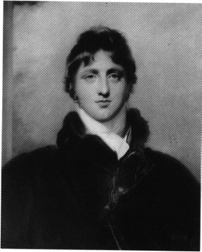 A portrait of Lord Granville Leveson-Gower (later 1st Earl Granville) at the time of his mission to Saint Petersburg.